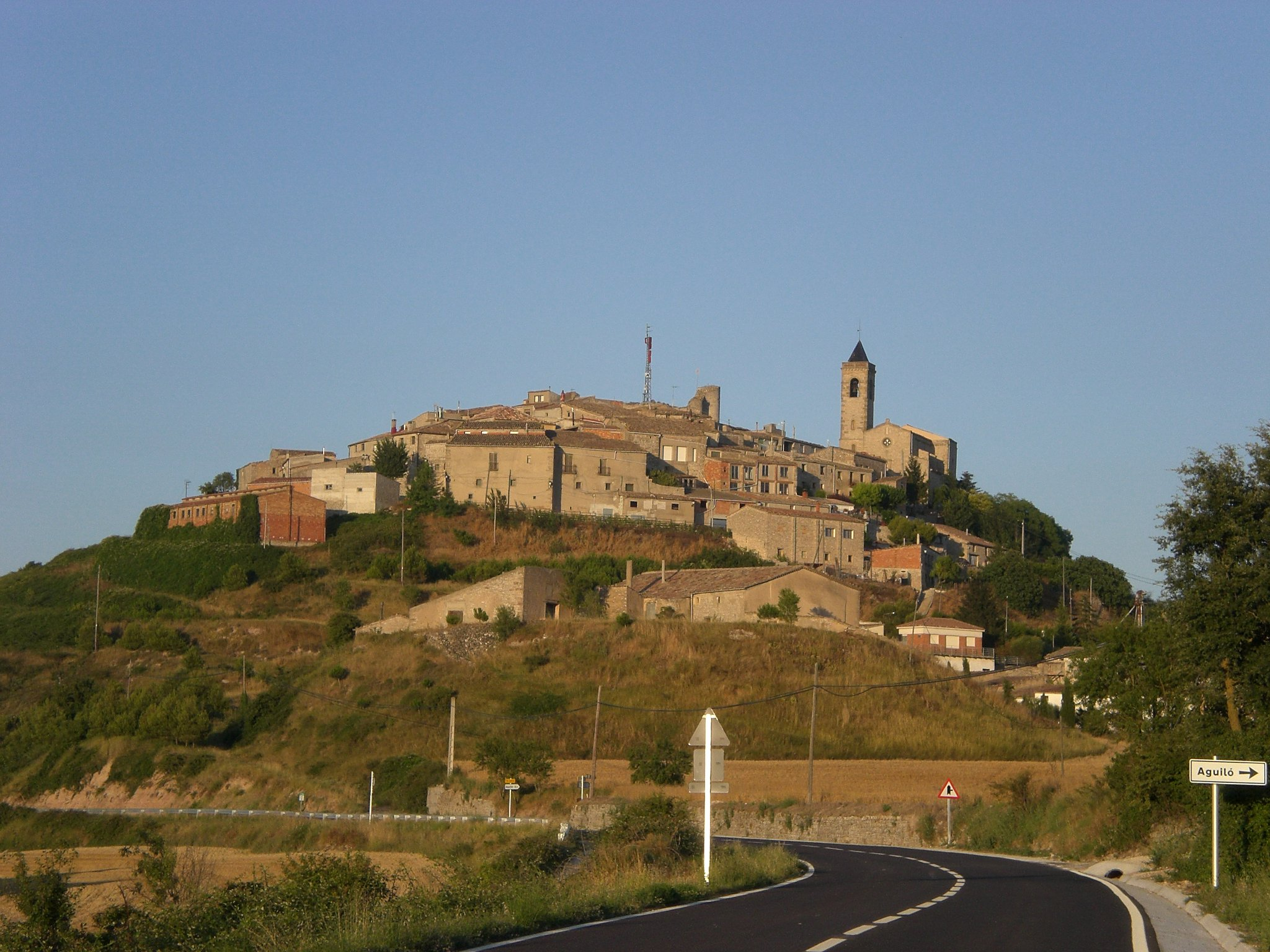 Picture of Aguiló (Santa Coloma de Queralt, Conca de Barberà, Catalonia)